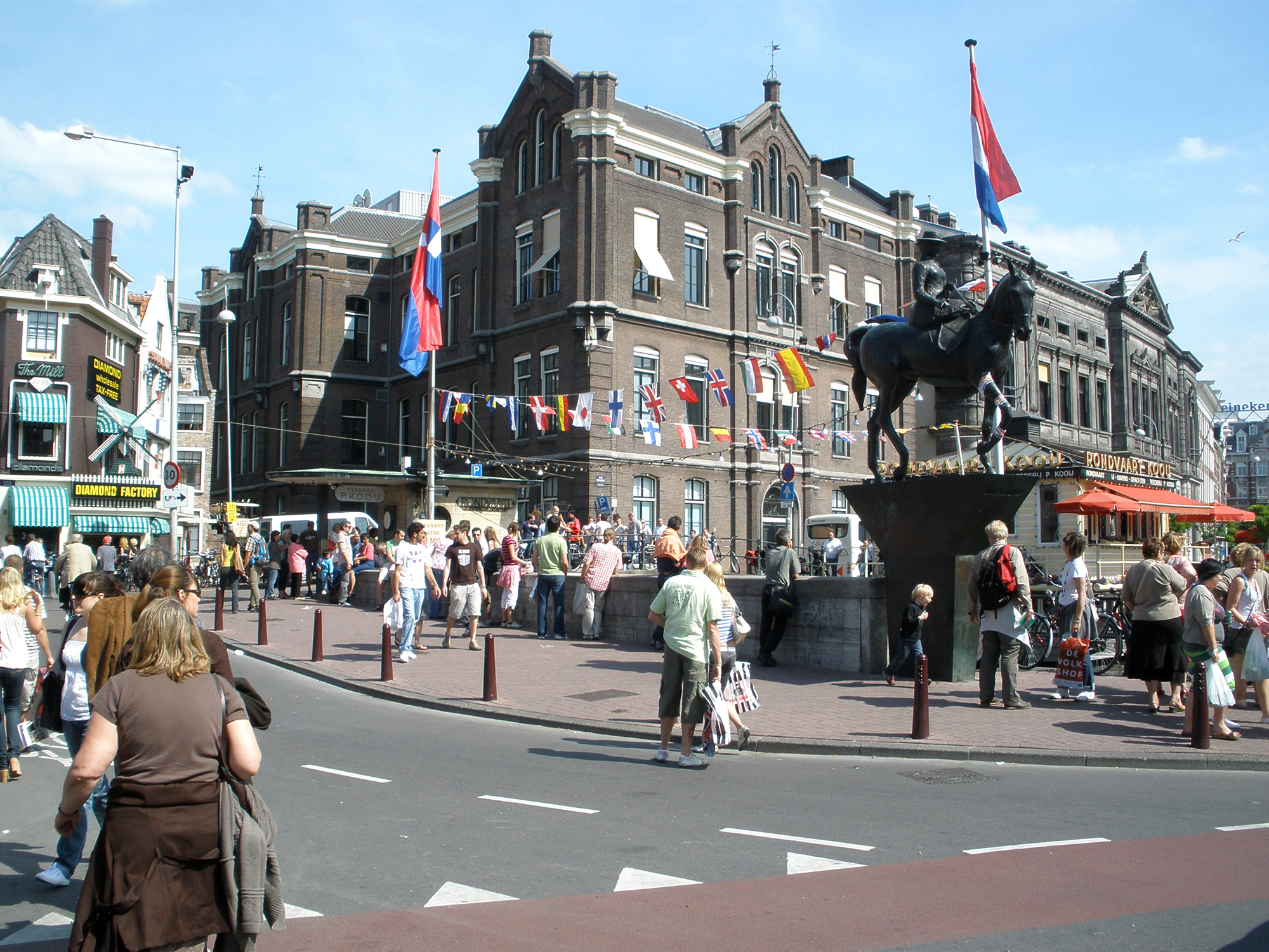 Intersection of Langebrugsteeg and Rokin in Amsterdam. Tourists are waiting to get on board a canal excursion boat. Note the equestrian statue of Queen Wilhelmina and the Allard Pierson Museum on the right.